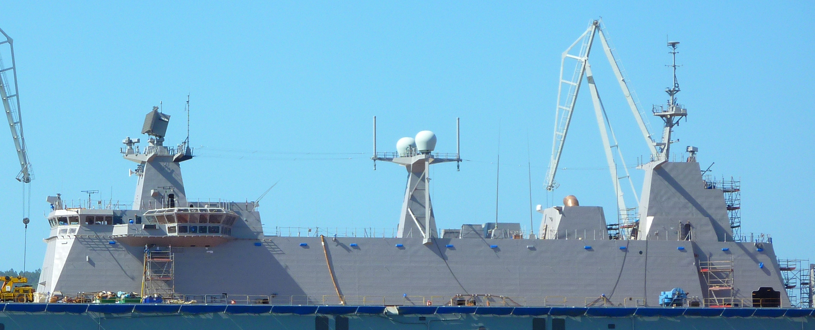 Spanish Navy LHD ship "Juan Carlos I", L-61.